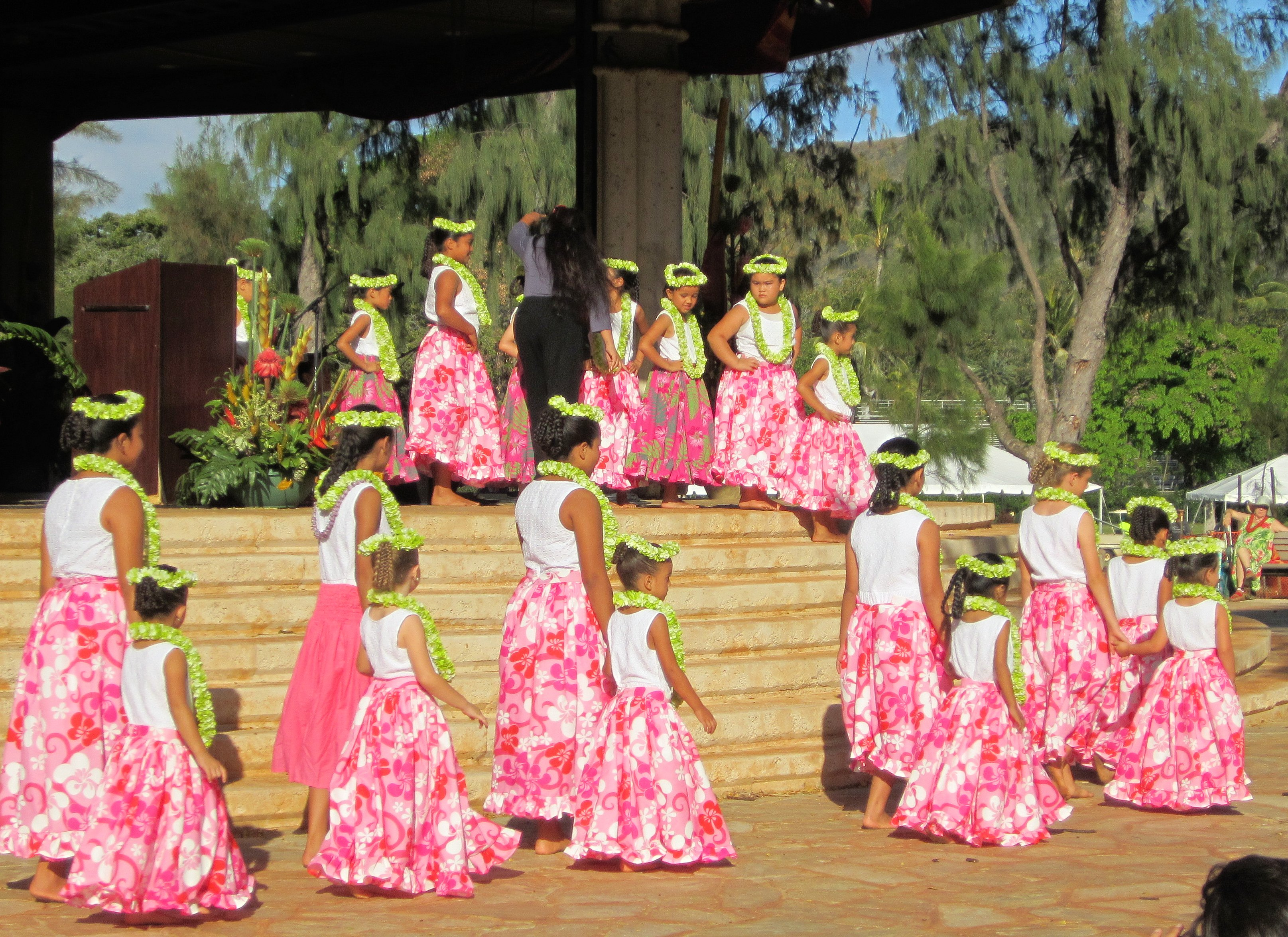 Hula-Girls at the Kapiolani Park.